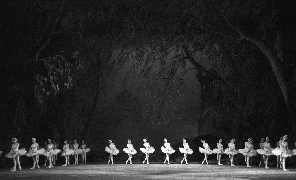 “Scene from Pyotr Tchaikovsky's ballet Swan Lake”. Ballet dancers in a scene from Pyotr Tchaikovsky's ballet Swan Lake staged at the Bolshoi Theater of the USSR, now of Russia.